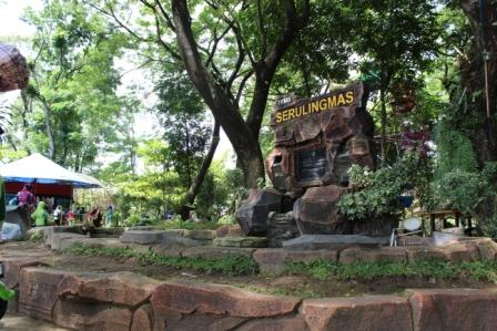 Serulingmas Zoo Welcome Statue located in Banjarnegara Regency